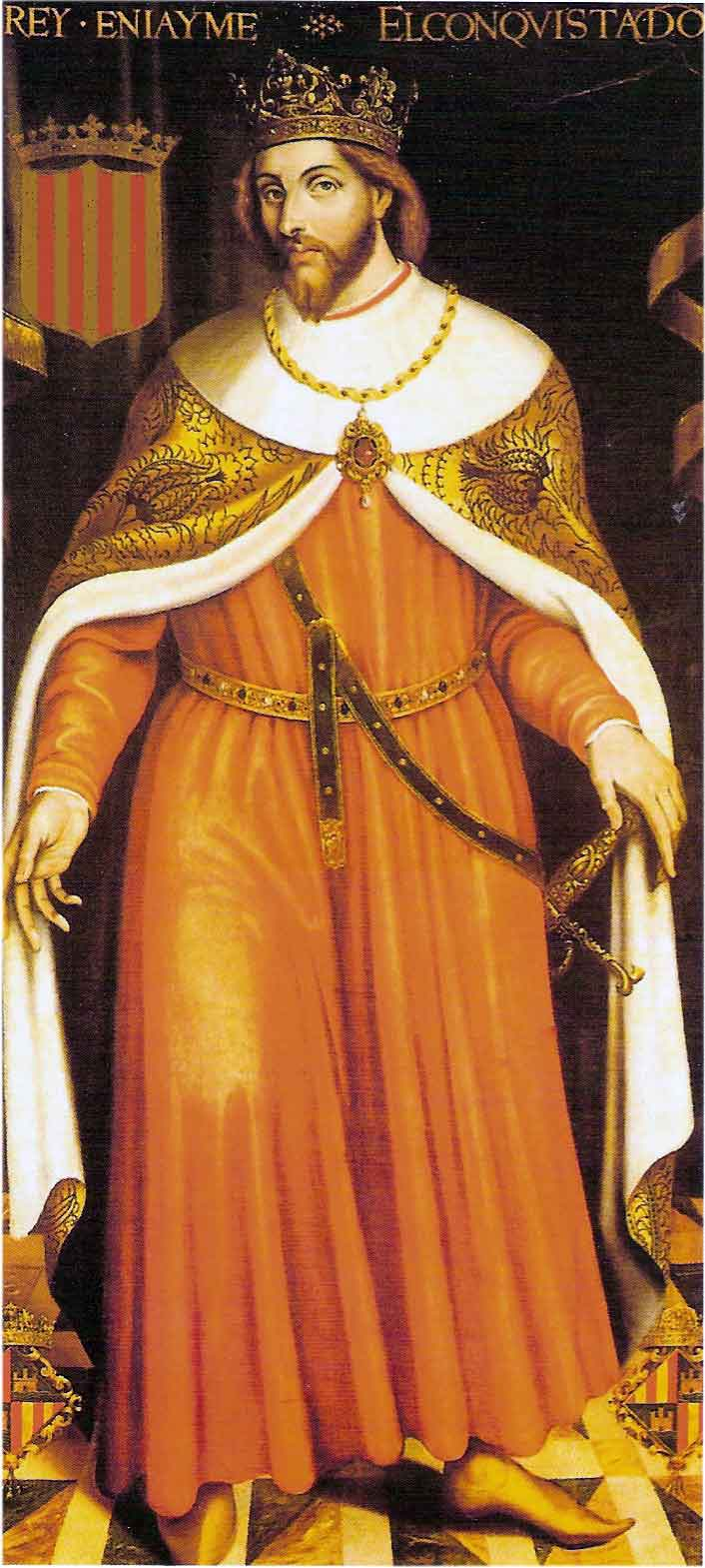 Portrait of King James I of Aragon , the end of the century. XVI copy of a medieval altarpiece . It is located in the city of Palma